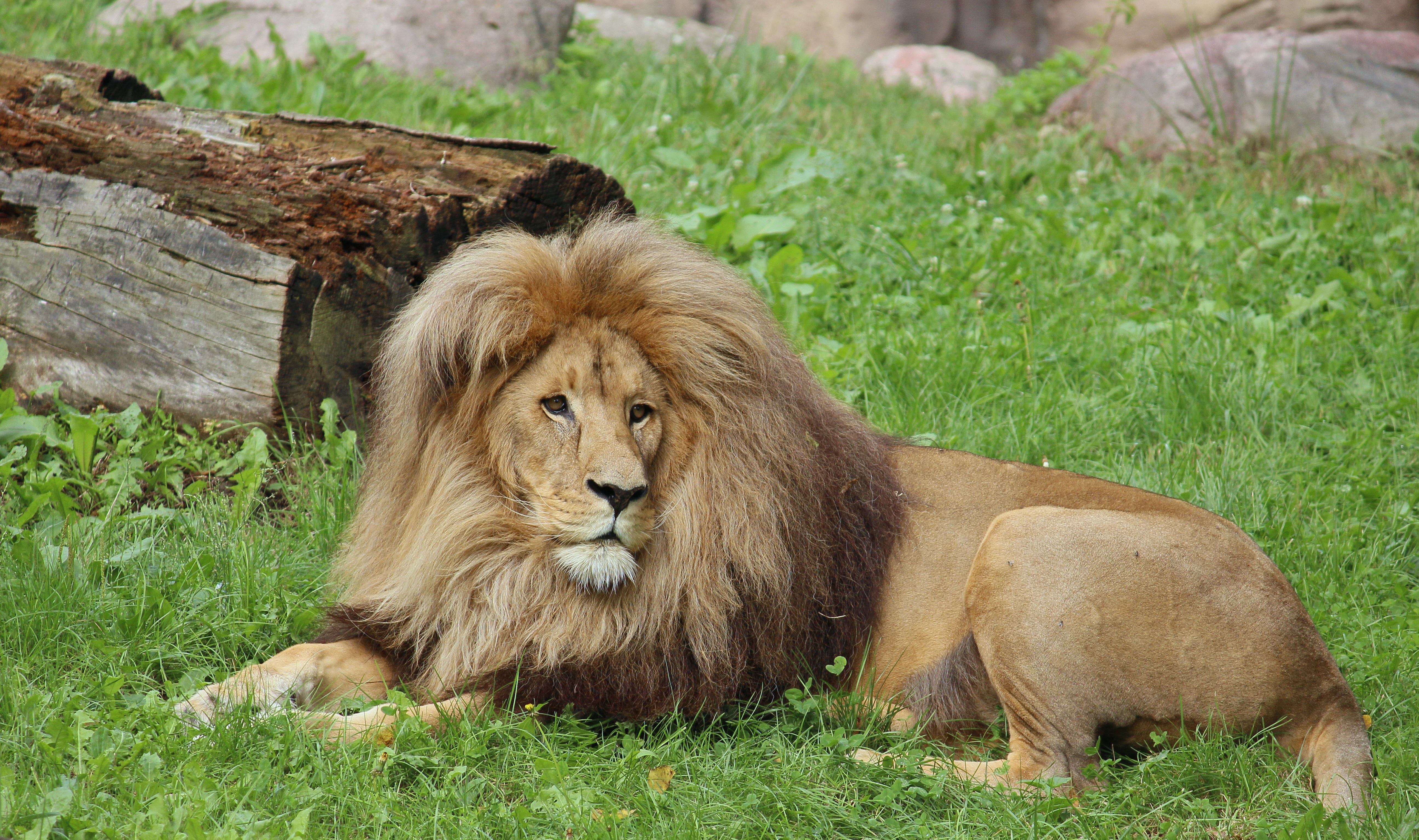 Panthera leo bleyenberghi, African Lion